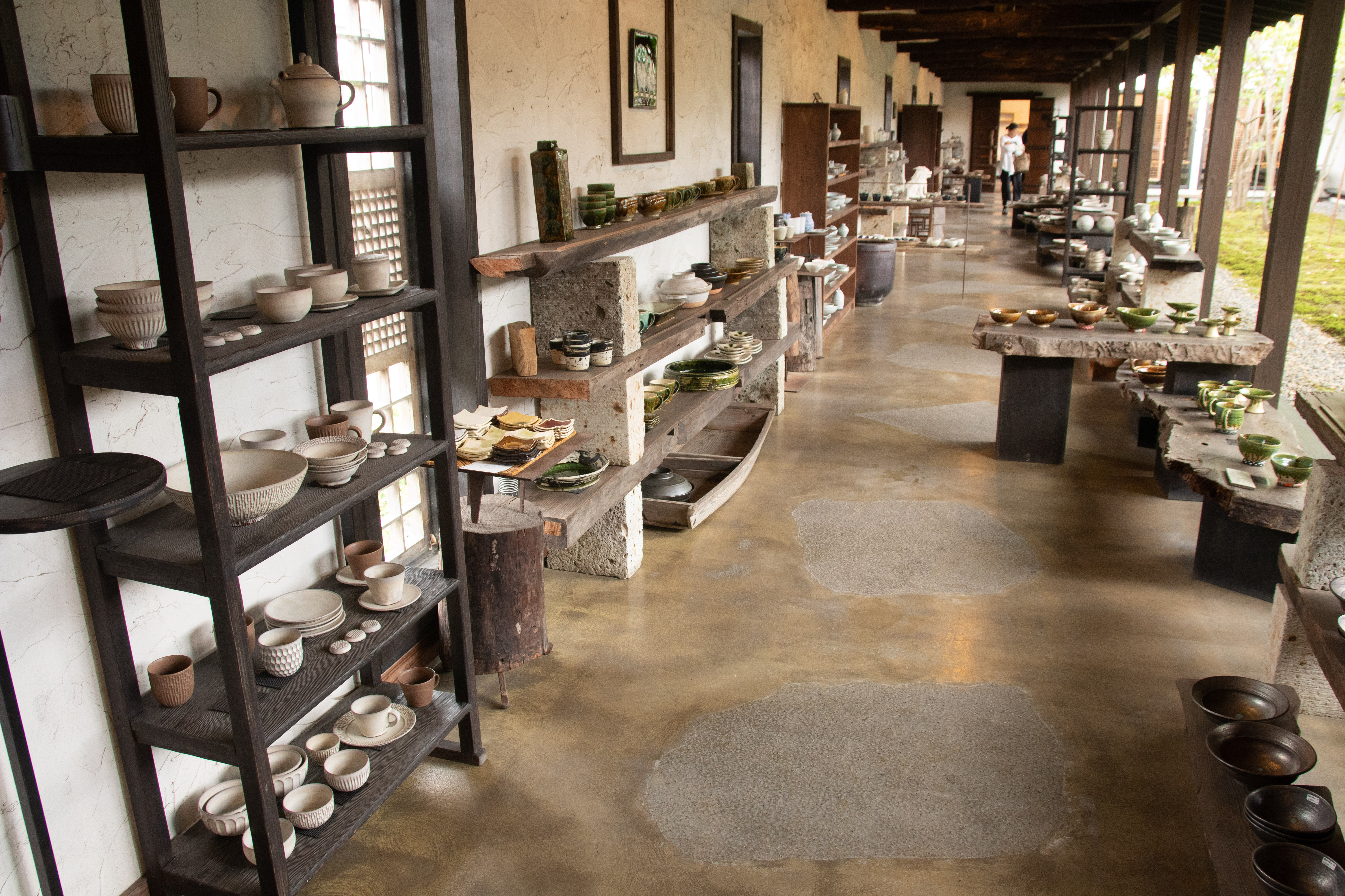 Kasama Ware(Kasama-yaki 笠間焼) displayed in Corridor Gallery Mon, Kasama City, Ibaraki, Japan